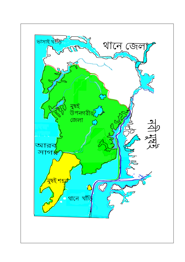 Mumbai Bengali map